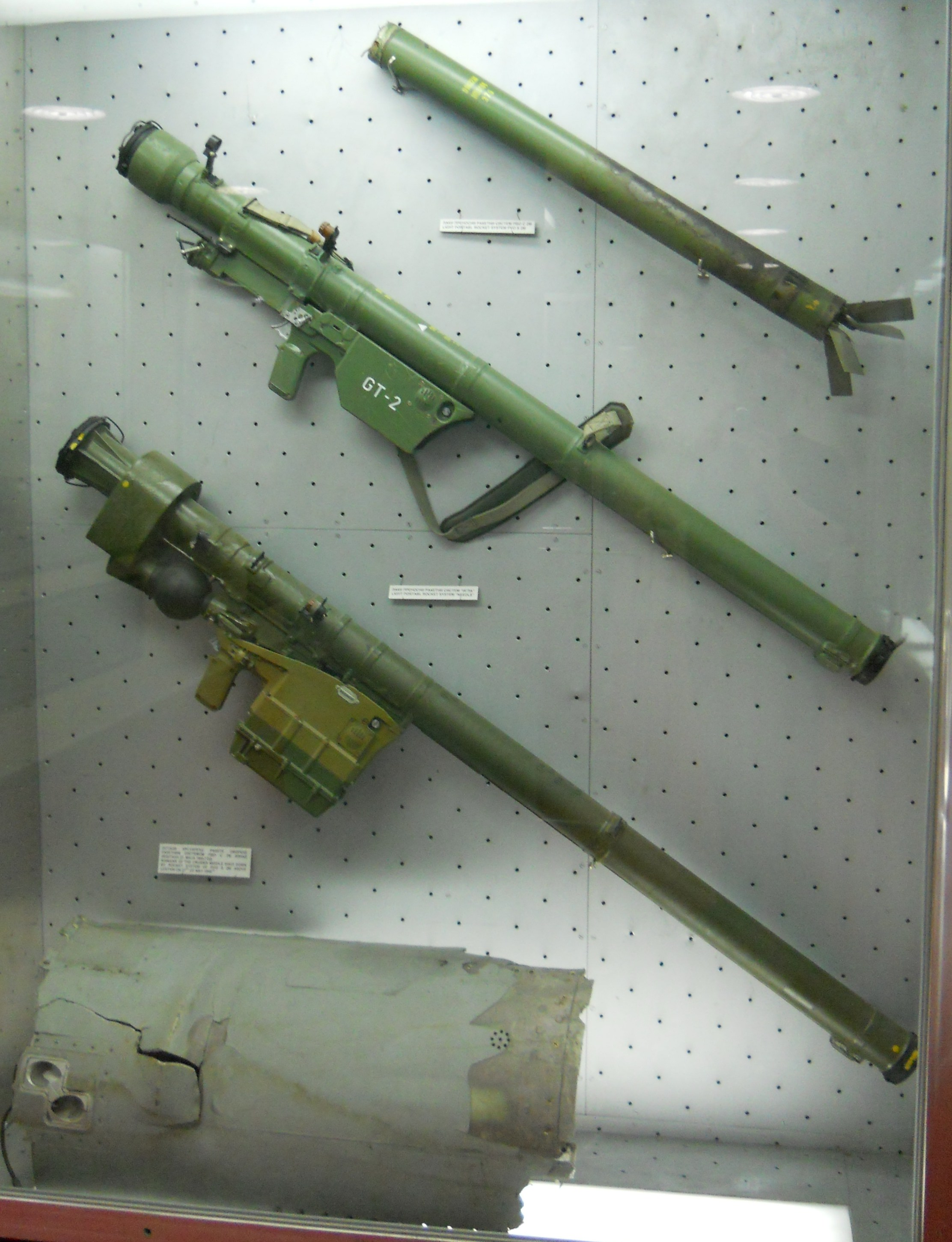 MANPADS in the Belgrade Aviation Museum.